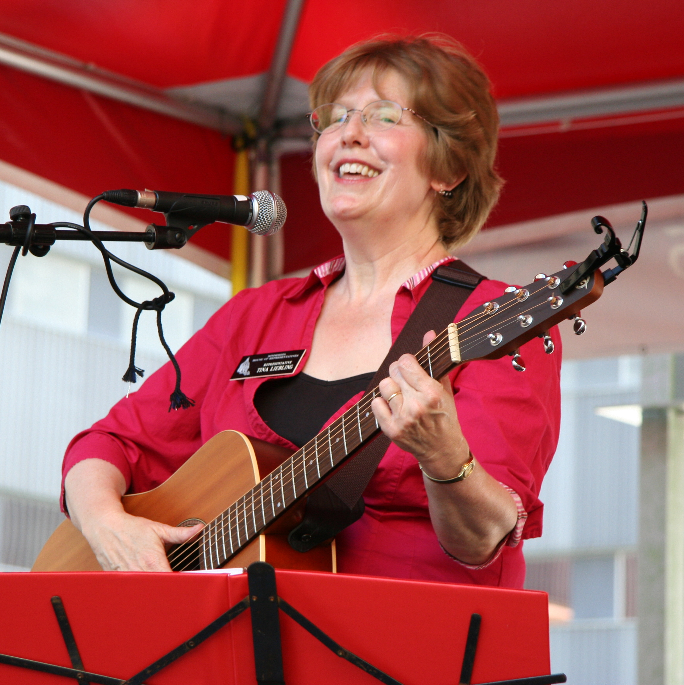 Tina Liebling playing guitar in Rochester, Minnesota, United States